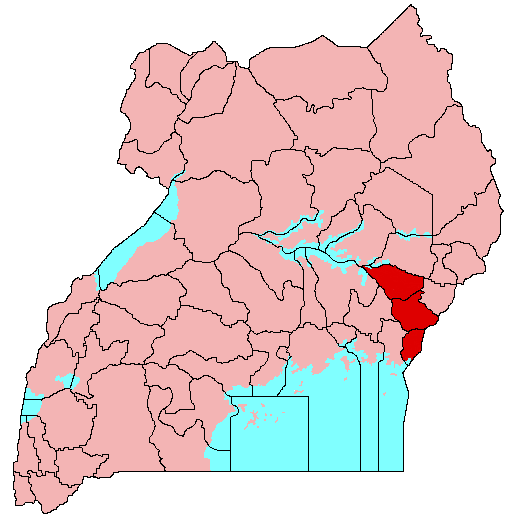 Ugandan sub-region of Bukedi Created by editing picture